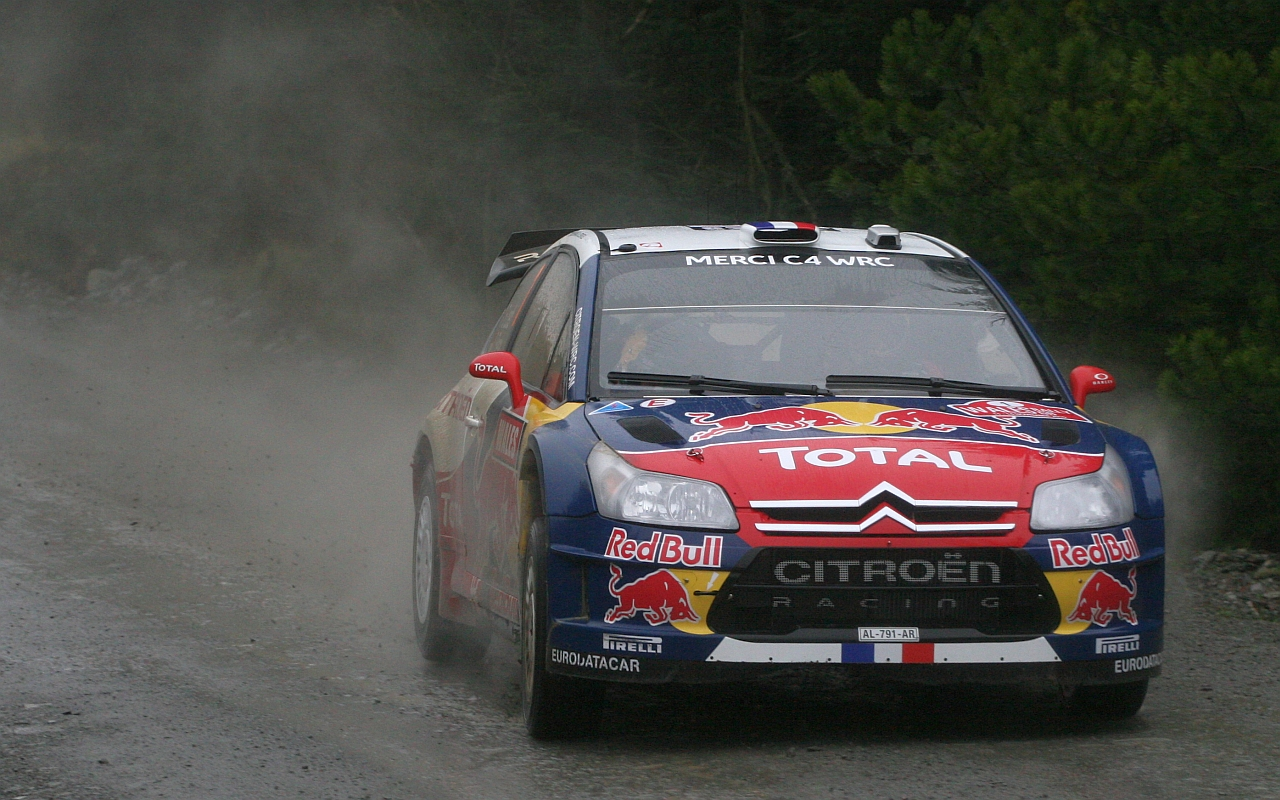 Sebastien Loeb - WRC Wales Rally GB 2010 - Myherin Stage